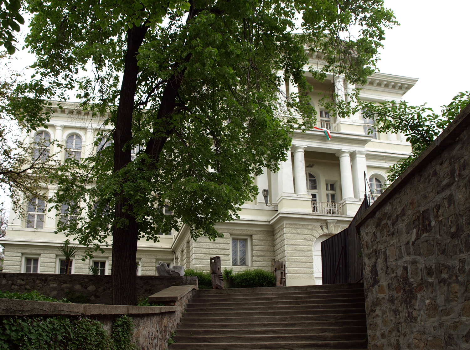 Plovdiv Art Gallery Permanent Exposition